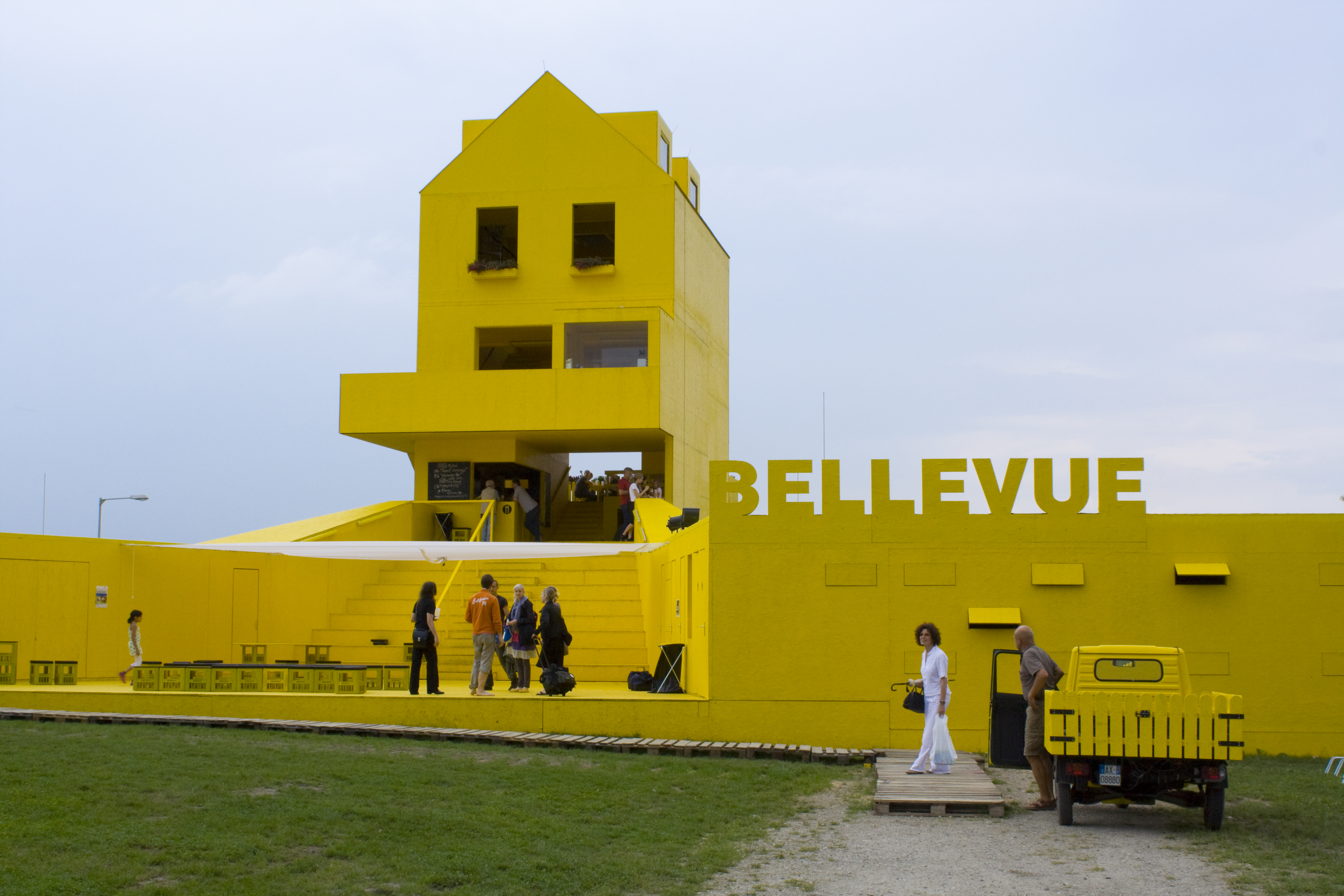 Bellevue Linz - yellow house, project for Linz 09